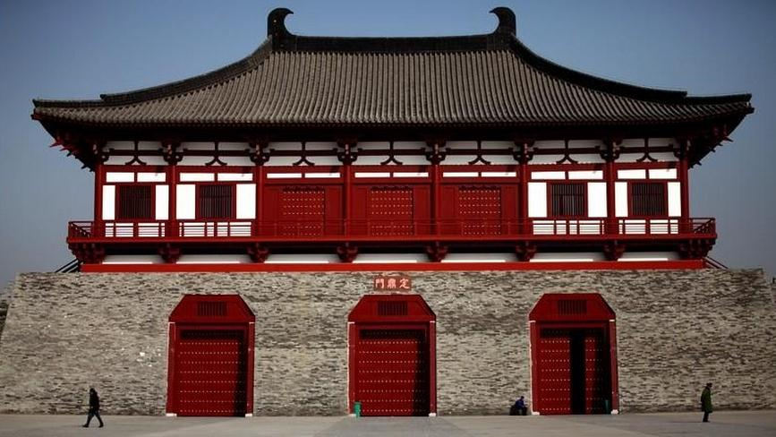 Dingding gate in Luoyang